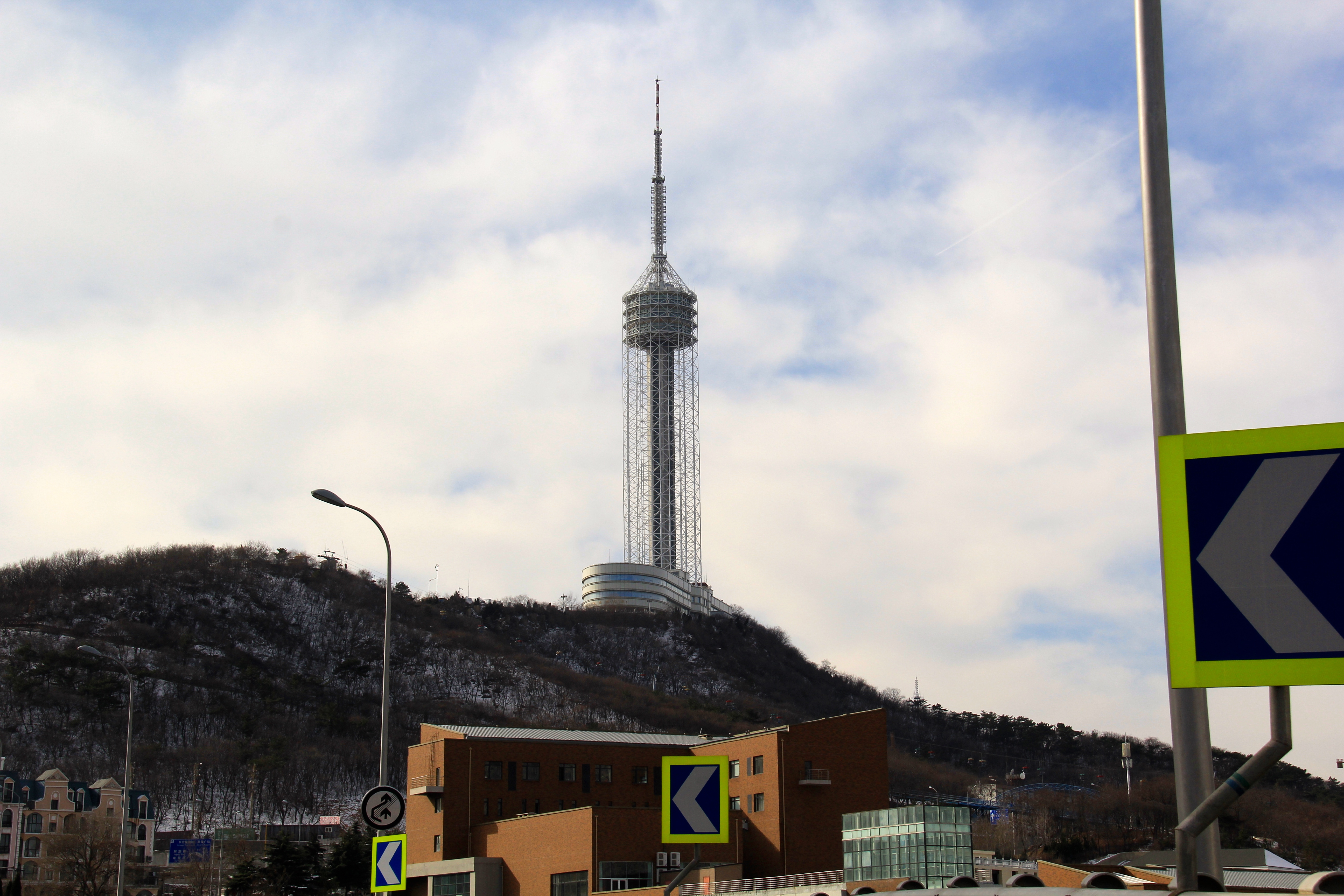 Dalian Sightseeing Tower, formerly Dalian Radio & TV Tower, Dalian, China